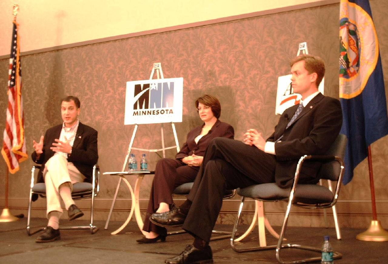 Photo I took of the 2006 candidates for United States Senator from Minnesota at a debate in Rochester.